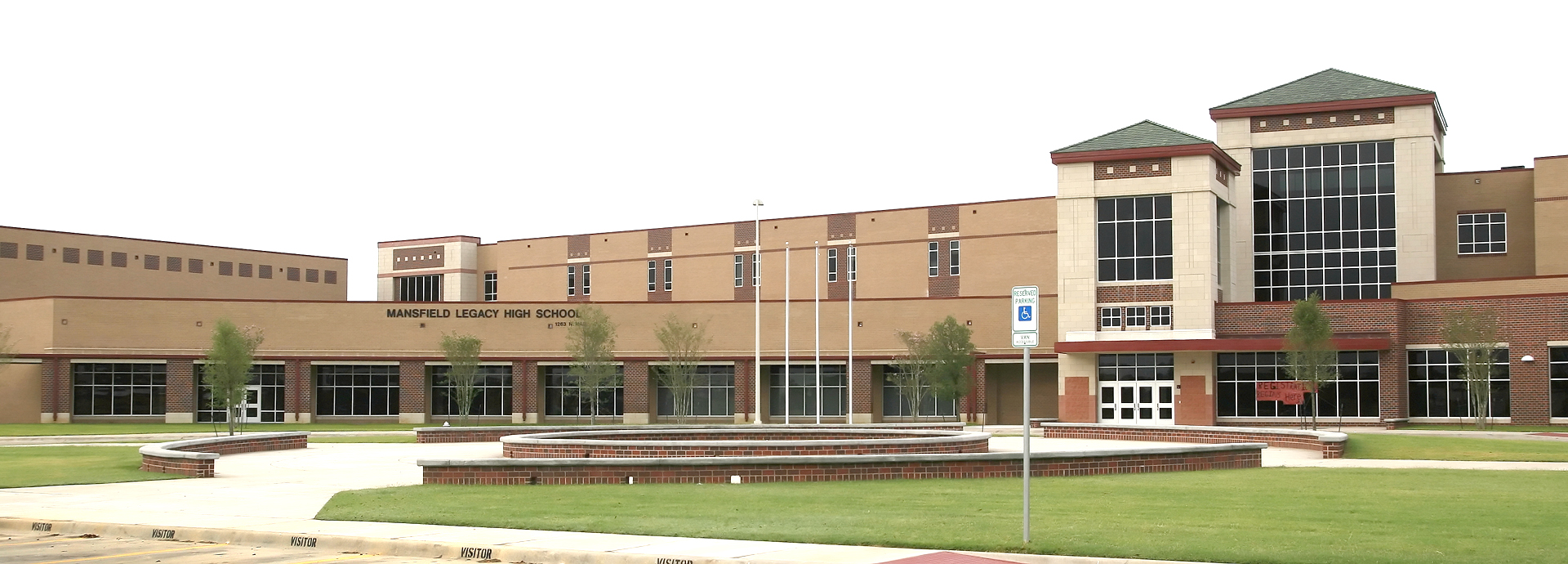 main facade of Mansfield Legacy High School